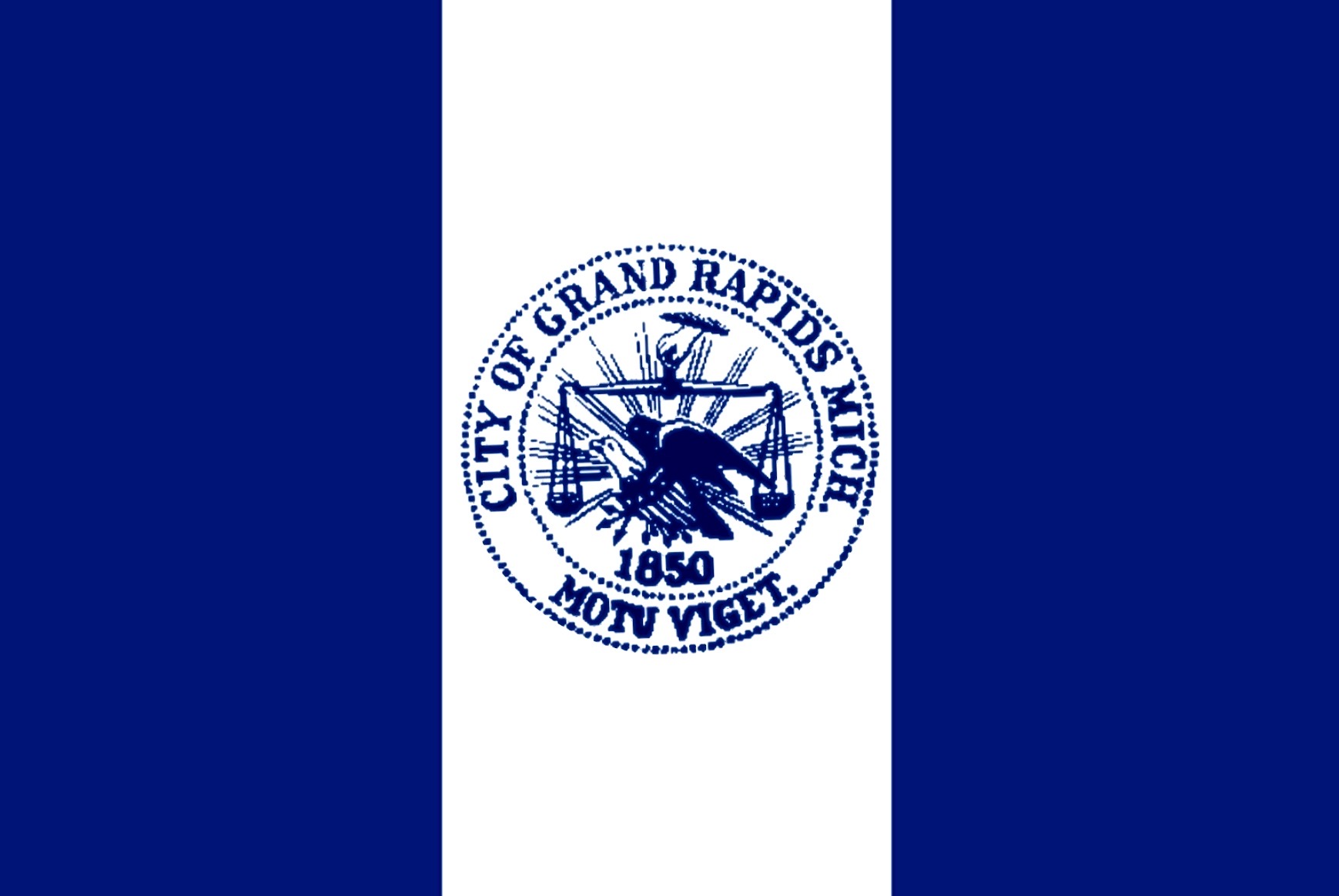 Official Flag of Grand Rapids, Michigan.